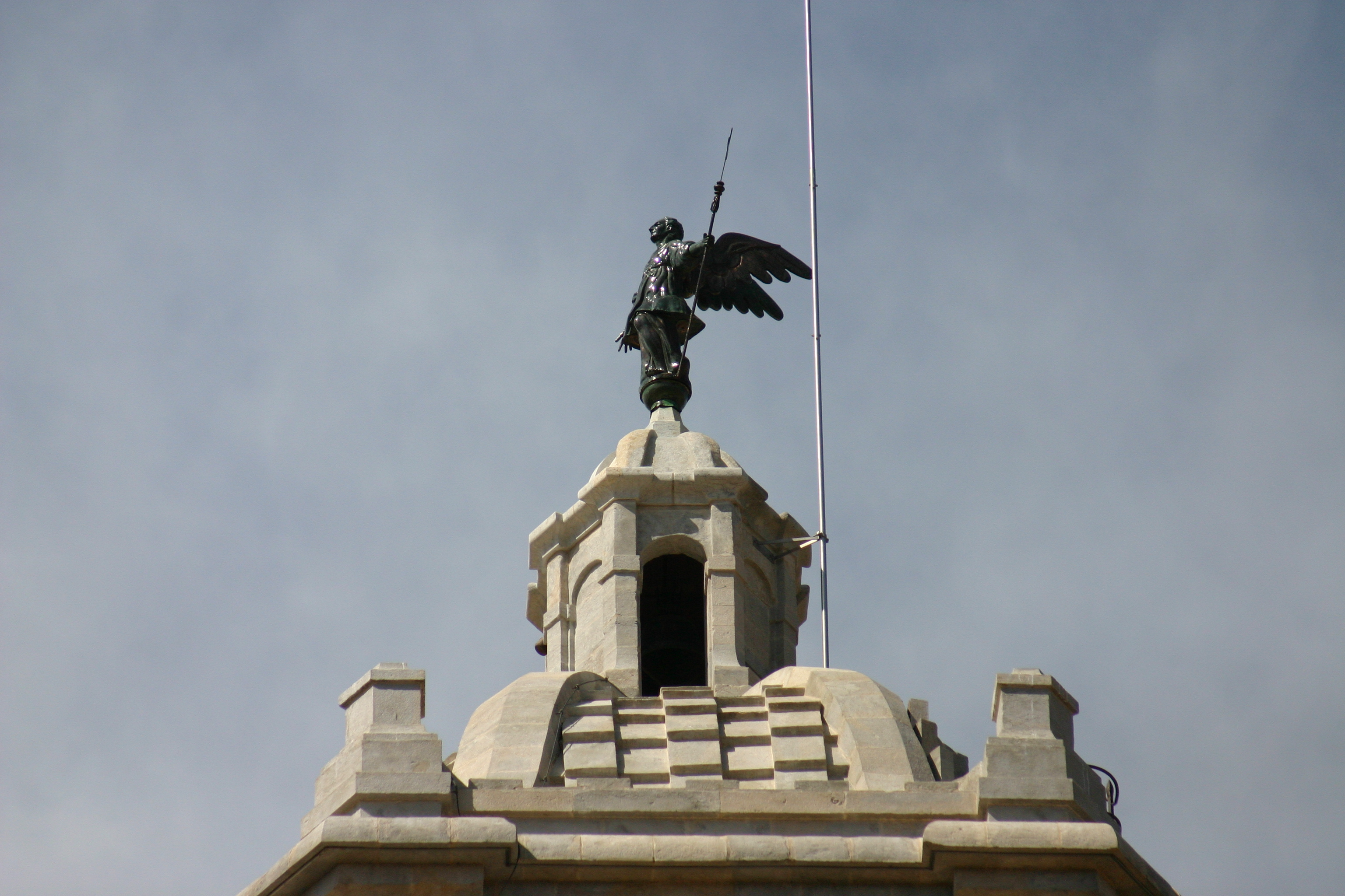 Girona's Cathedral. Girona, Catalonia (Spain)